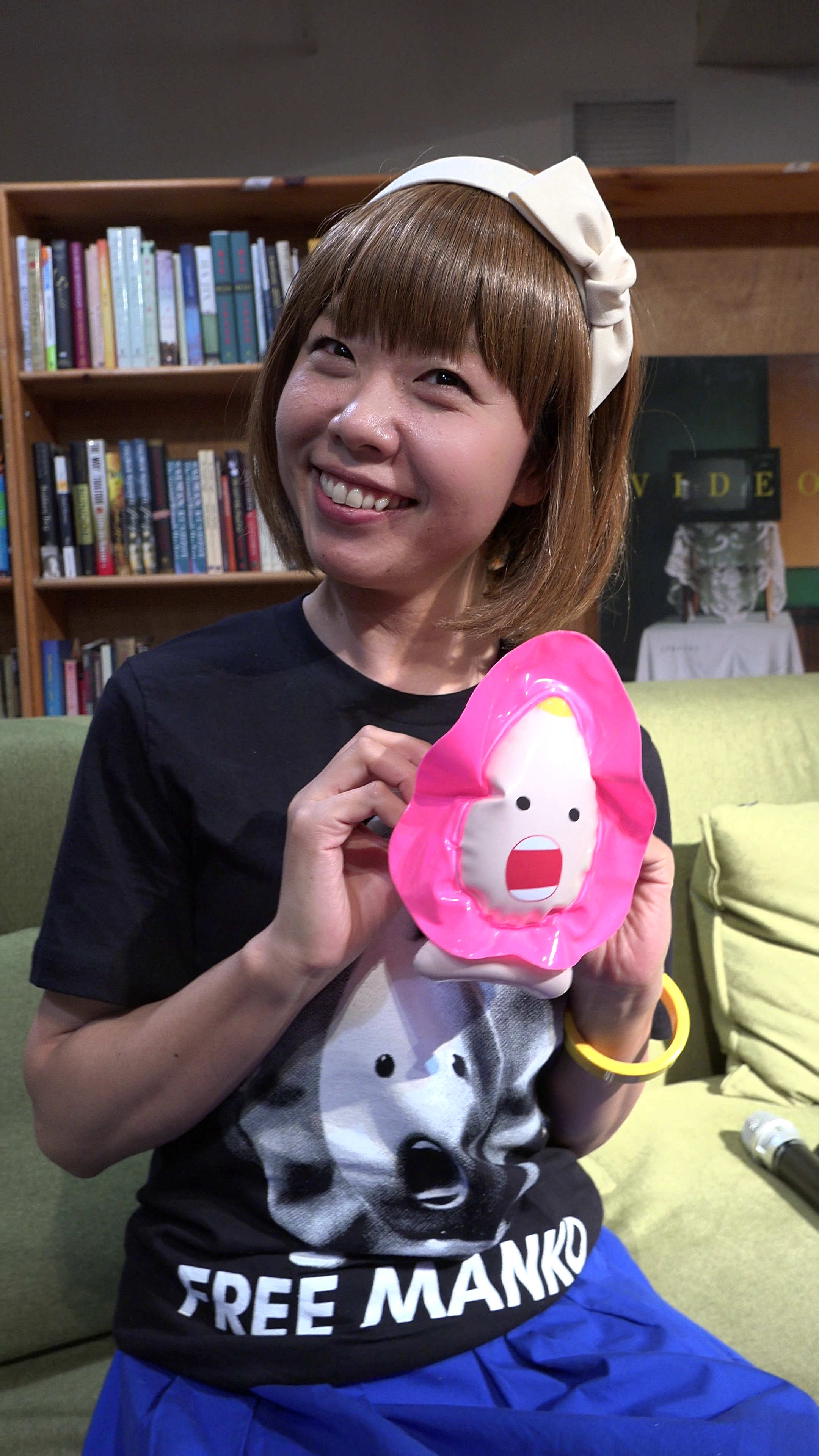 Rokudenashiko (Megumi Igarashi) in New York City